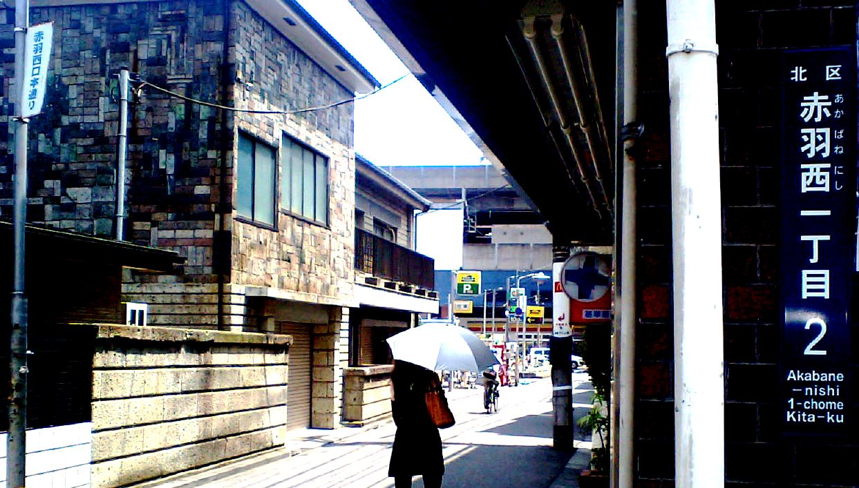 Akabanenishi 1 chome,Kita ward,Tokyo.